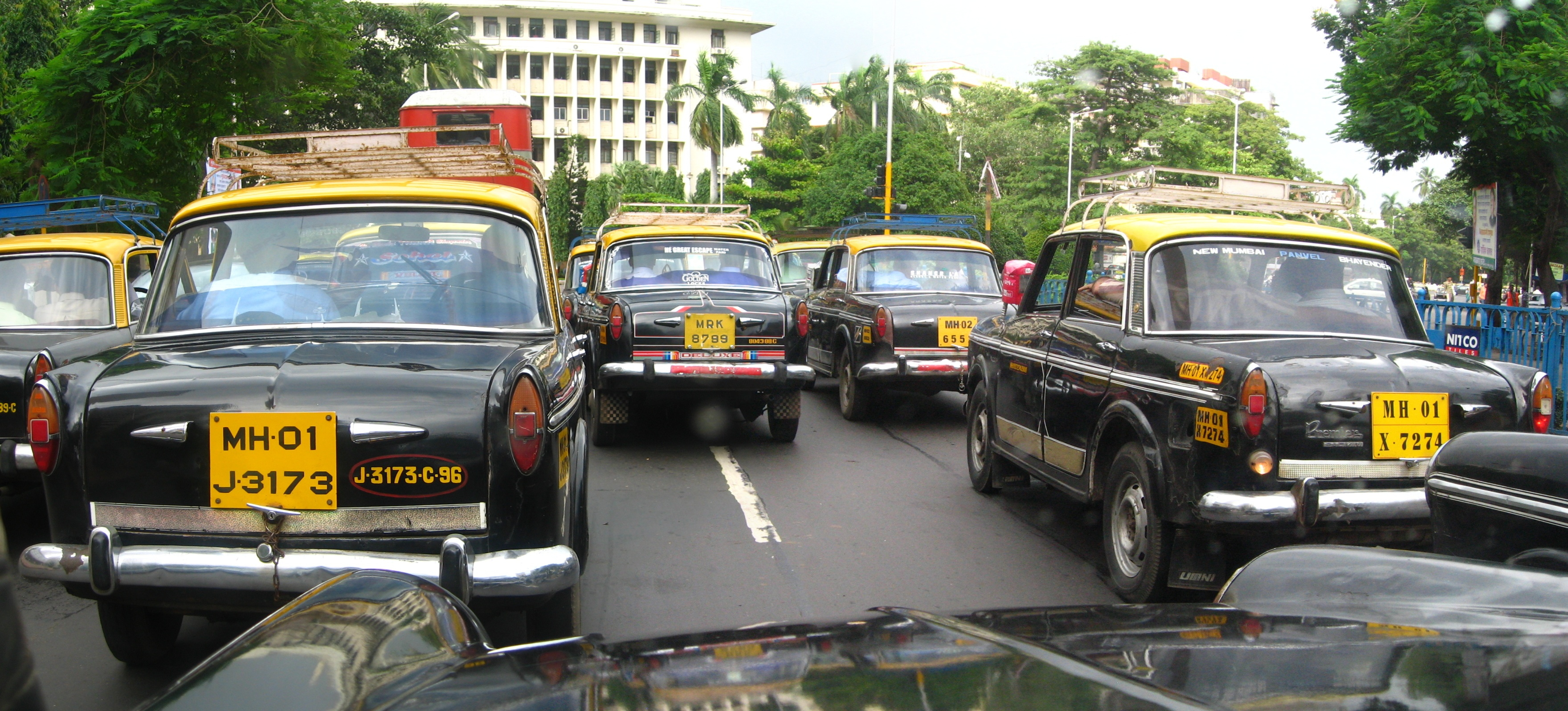 Premier Padmini taxis, Mumbai, India.